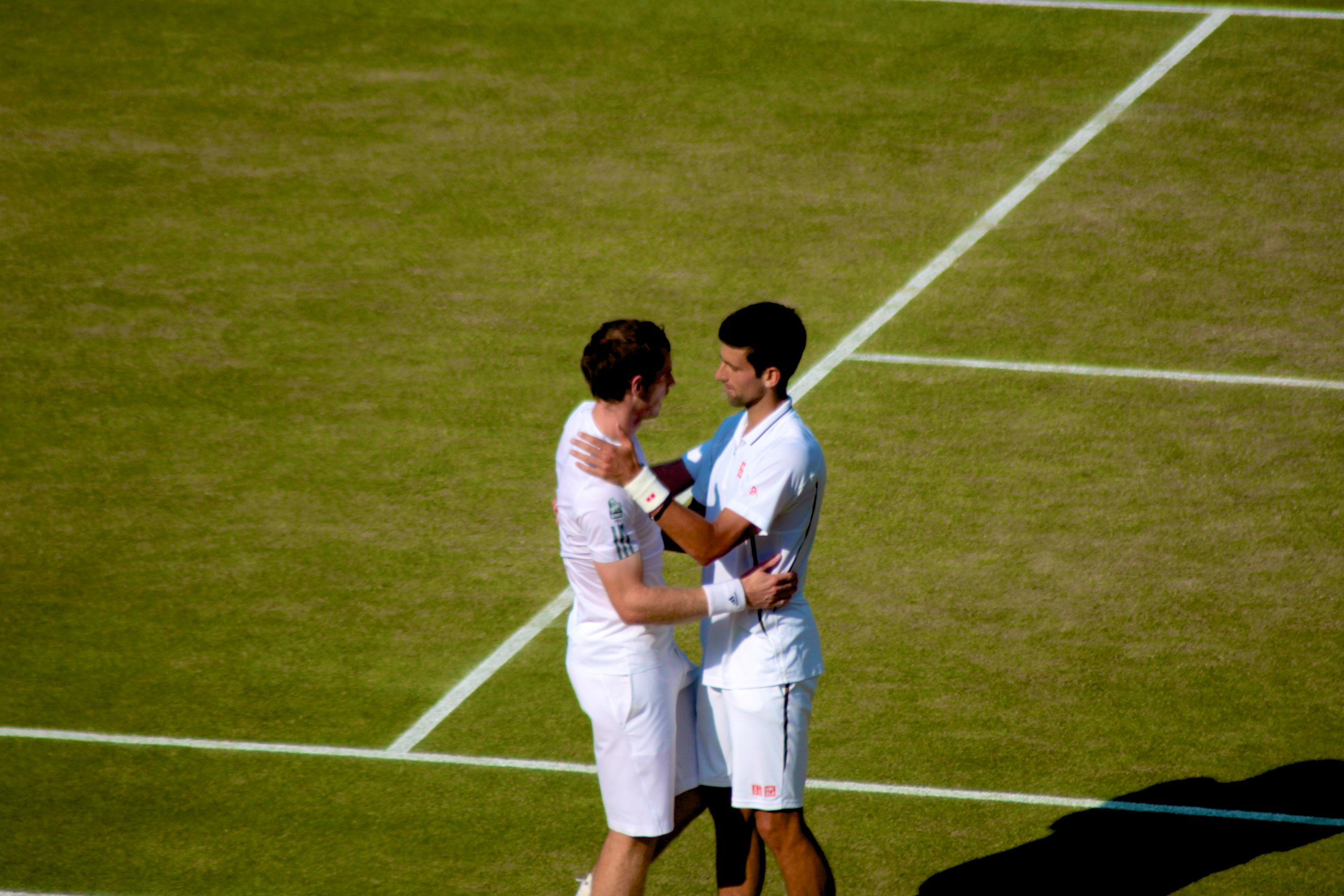 Andy Murray and Novak Djokovic embrace at the end of the Wimbledon 2013 Men's Single final